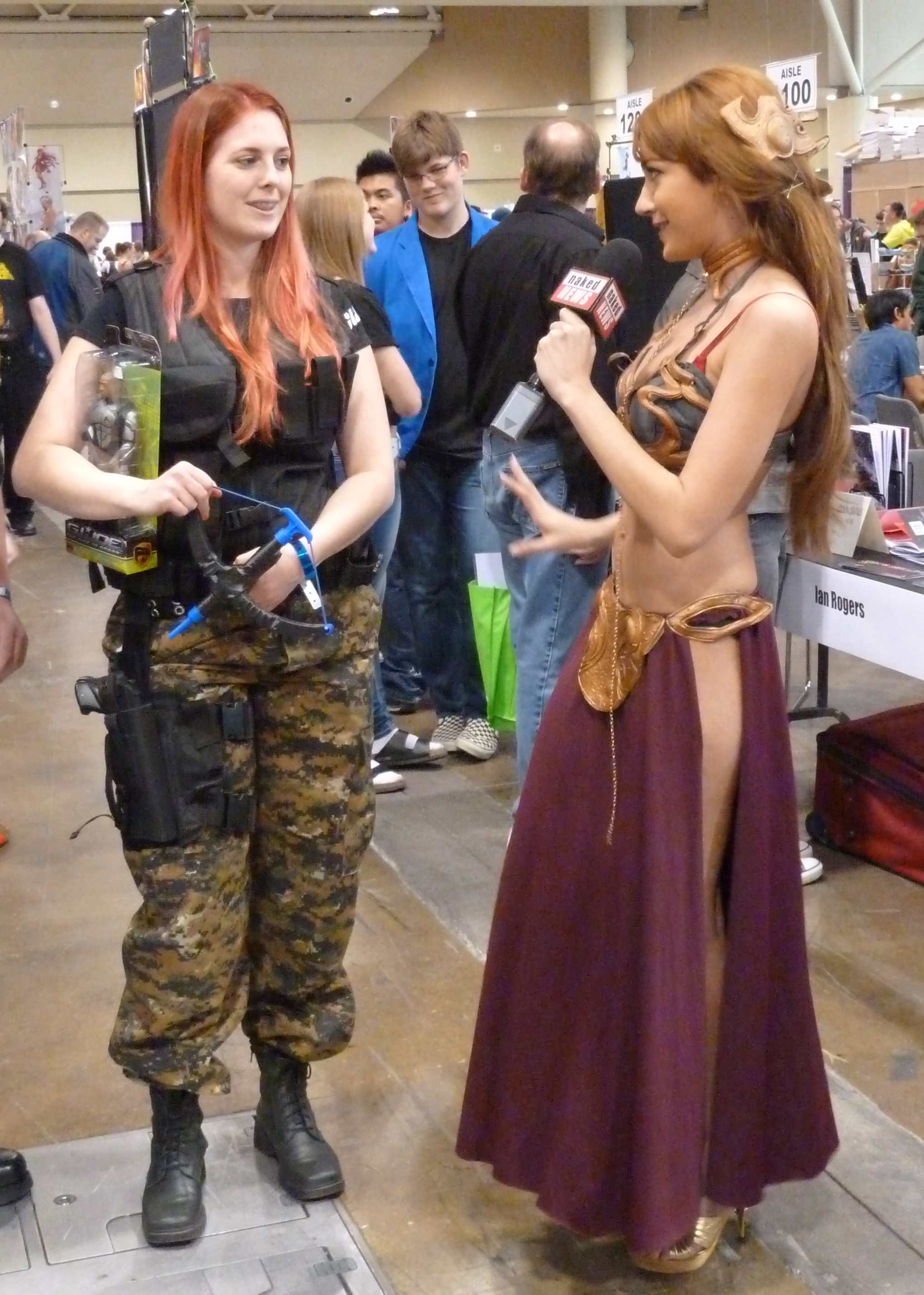 Rachel Simmons from Naked News in a Slave Leia outfit interviewing a cosplayer dressed as Scarlett from G.I. Joe at Wizard World Toronto 2012.